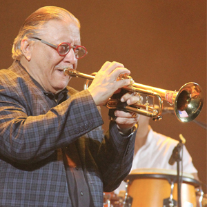 Arturo Sandoval performs with KGUBrass mouthpiece booster. March, 3 2018